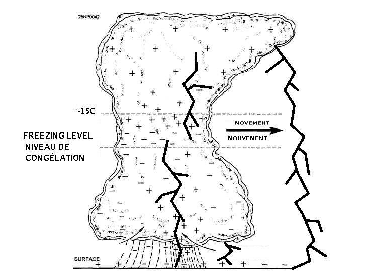 Diagram showing electric charges and lightning in and around a thunderstorm.